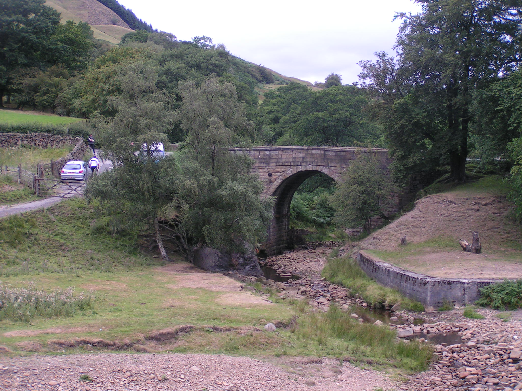 Alport Bridge, Derbyshire, where the River Alport flows under the A57 road just upstream of its confluence with the River Ashop.